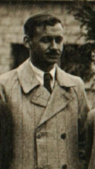 Asen Kaloyanov, Georgi Veselinov, Zmey Goryanin, Lyubomir Doychev, Grigor Ugarov and Slavcho Angelov in Samokov.